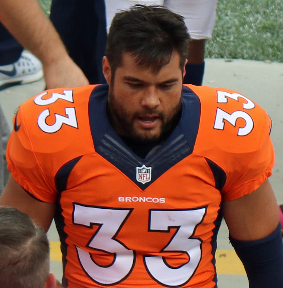 Shiloh Keo, a player on the National Football League.